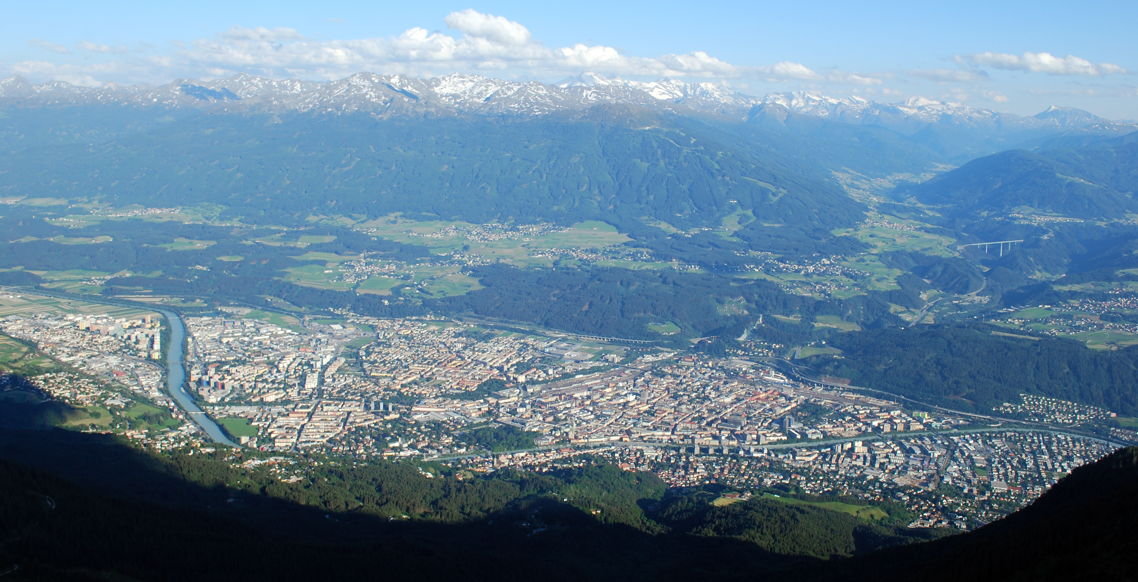 Innsbruck, view from northwest